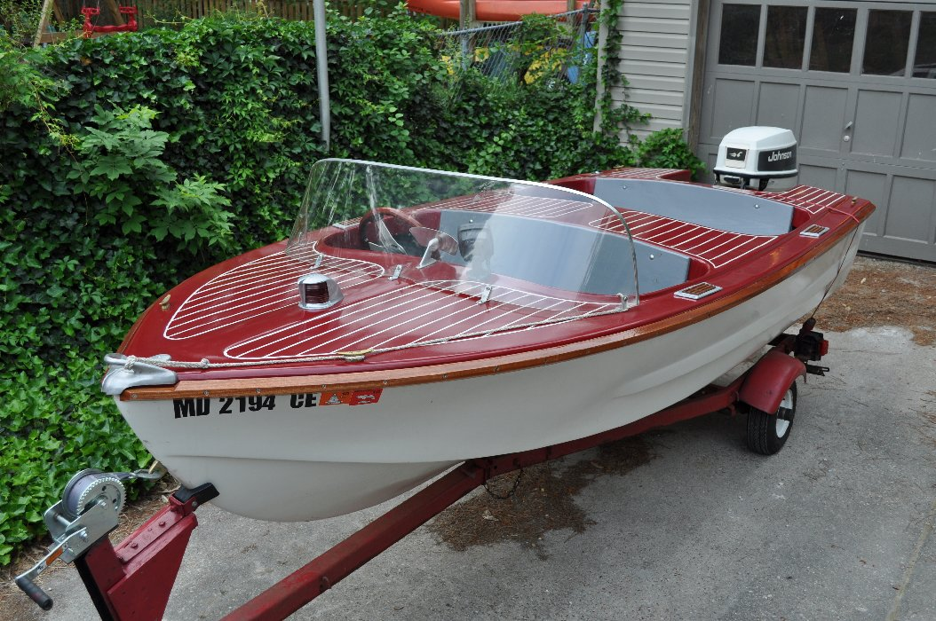 1956 Glasspar Club Lido after 2009 Restoration. The Outboard, Mahogany Rub Rail, Steering wheel and step pads are not original.